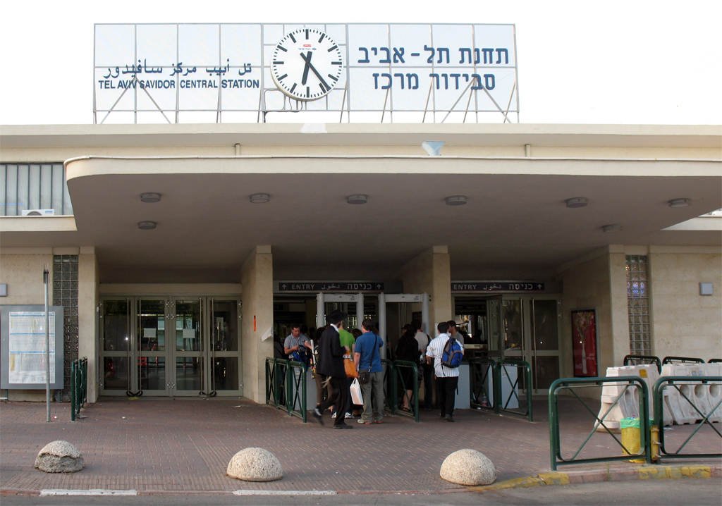 Tel Aviv Merkaz (Savidor) train station west entrance